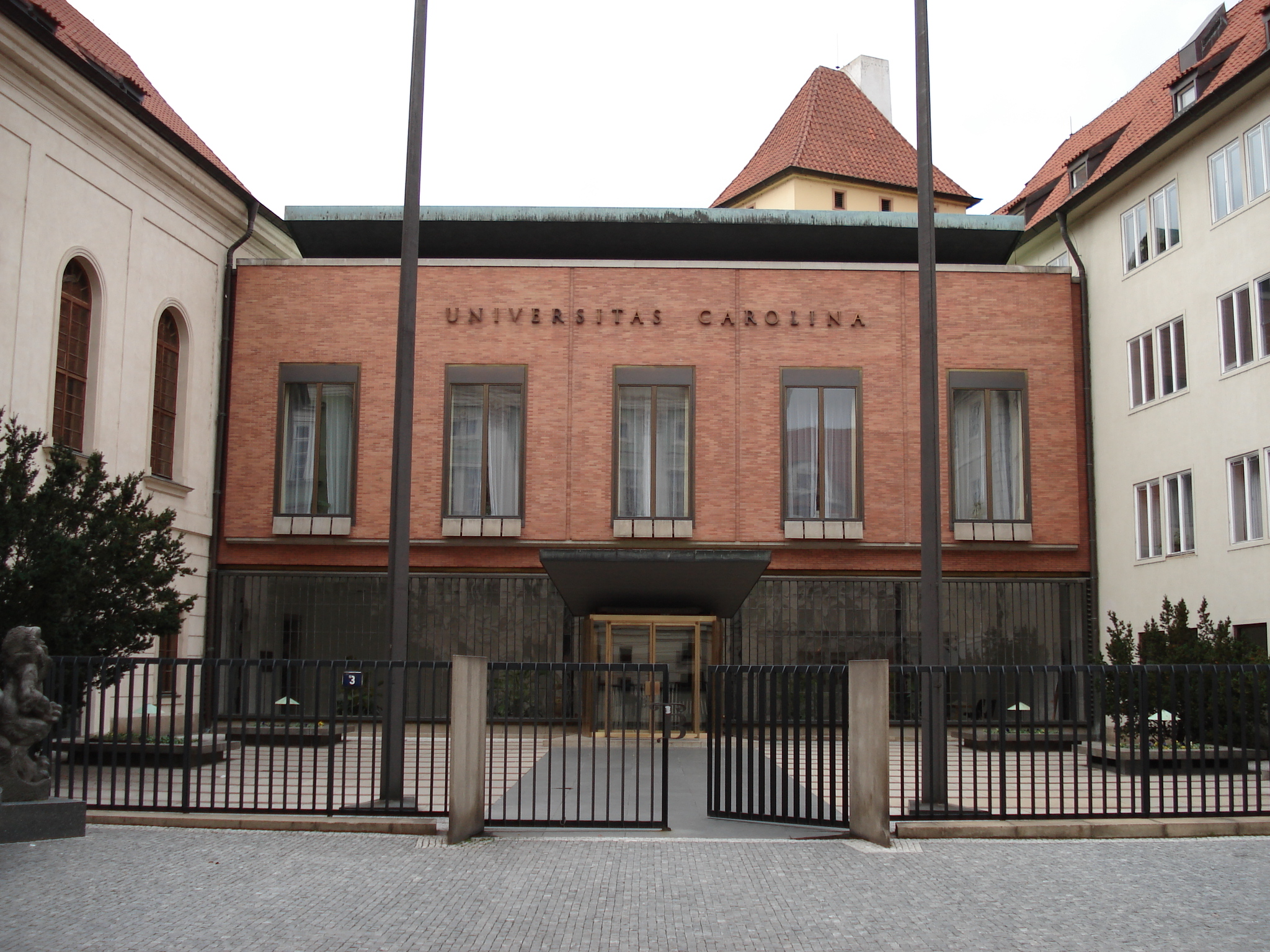 Facade of the aula of the Charles University in Prague.